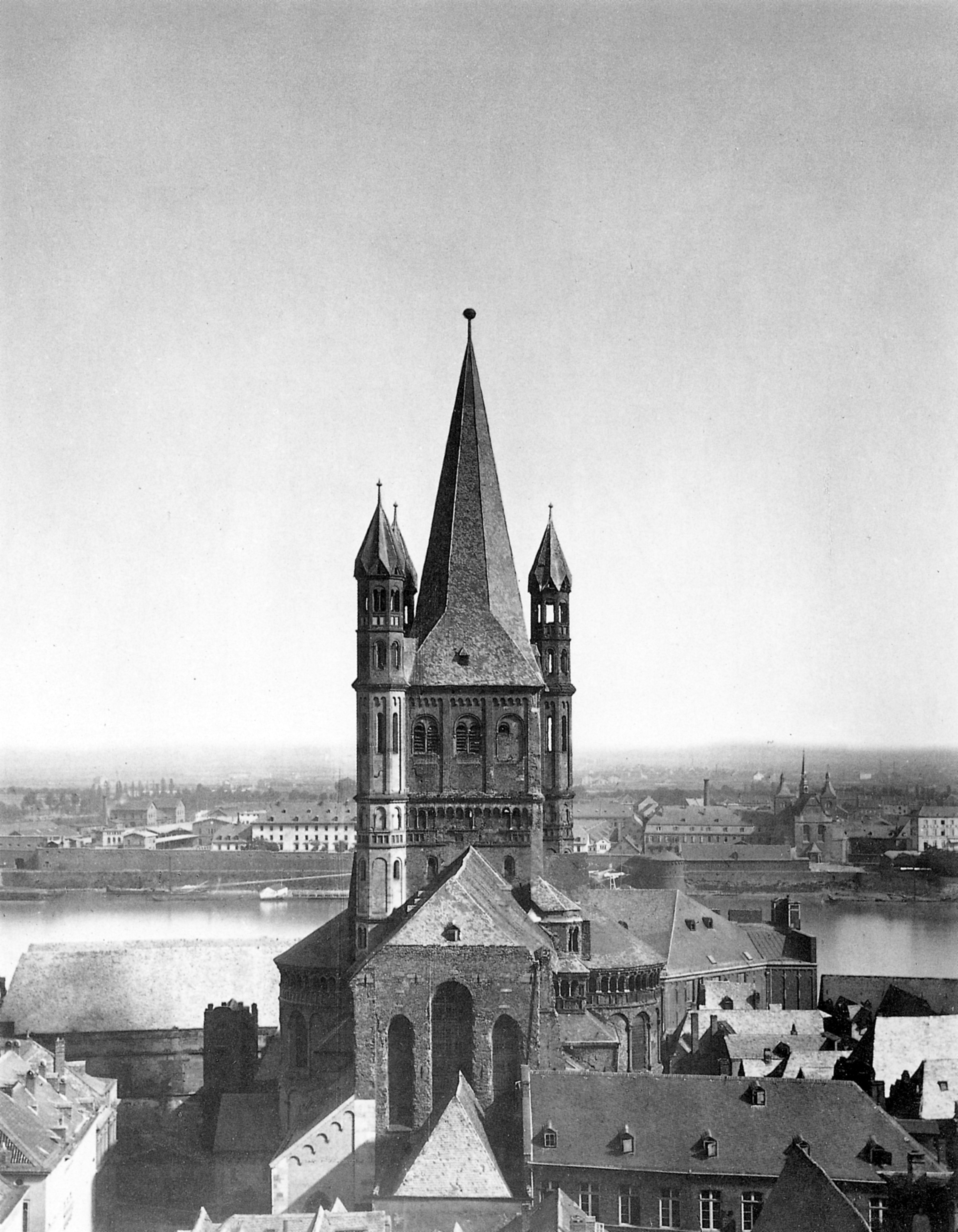 View to the western side of Groß St. Martin, Cologne